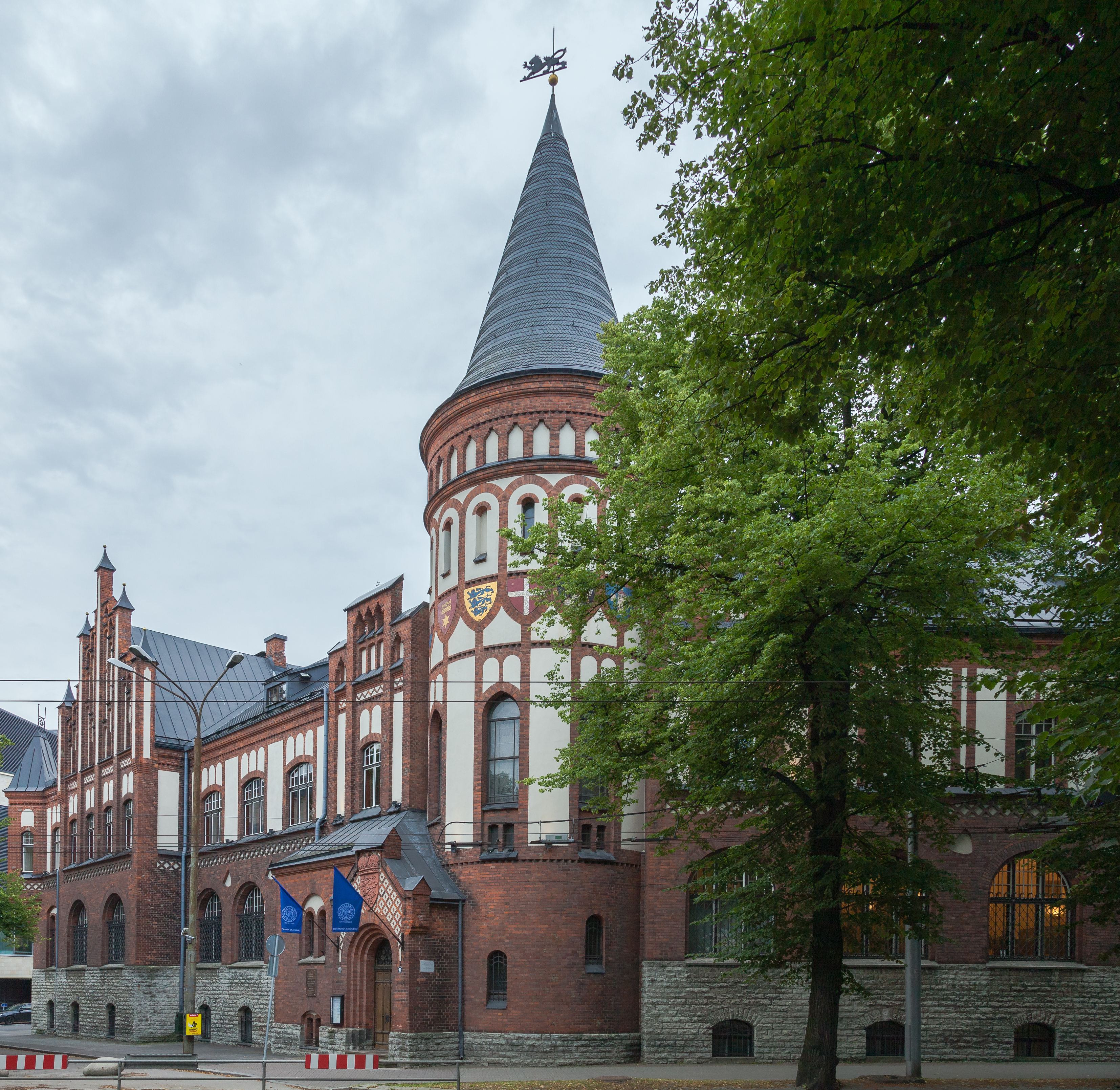 Museum of the Bank of Estonia, Tallinn, Estonia